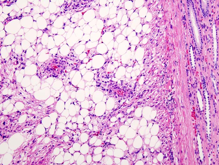 Histopathologic image of renal angiomyolipoma. Nephrectomy specimen. H & E stain.